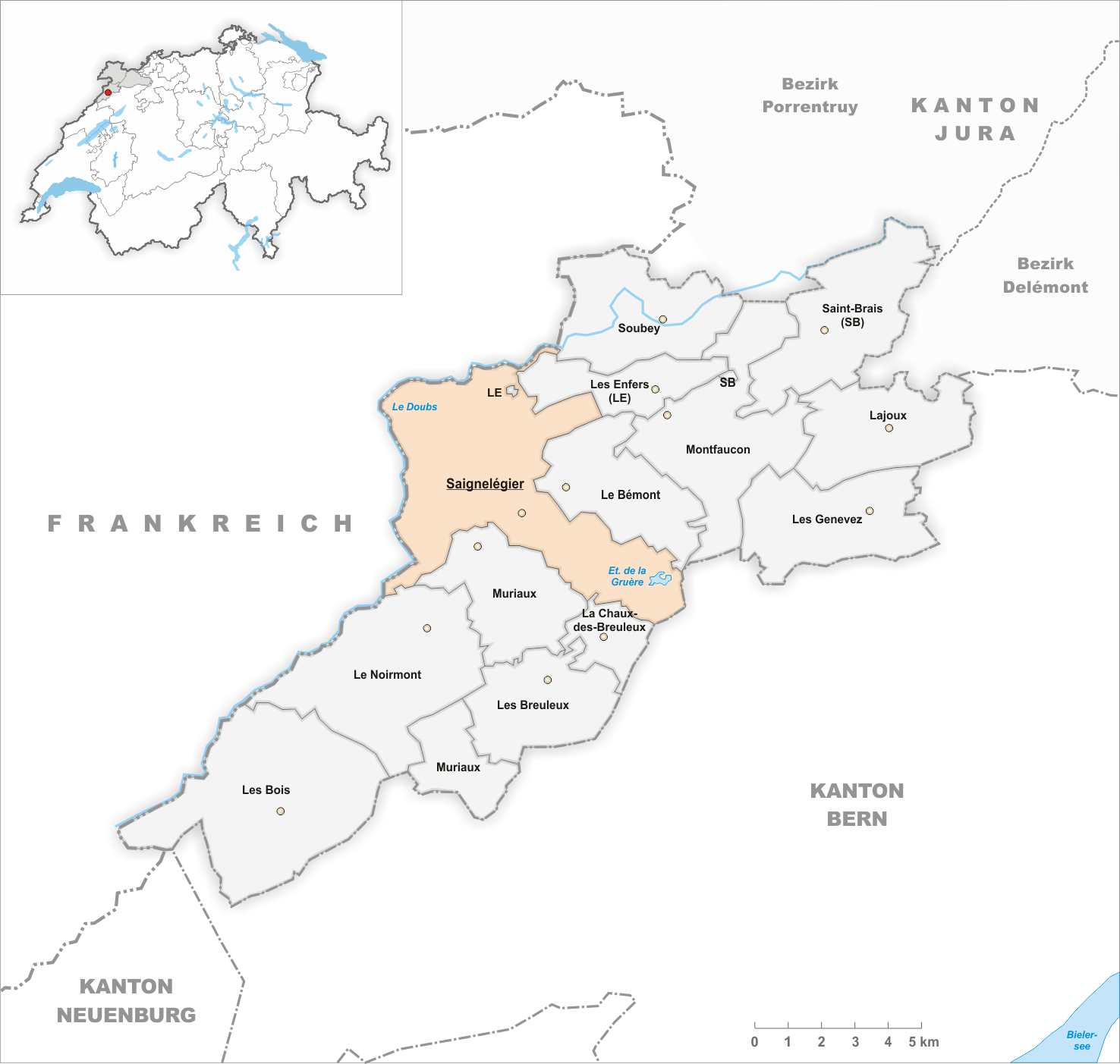 Municipality Saignelégier